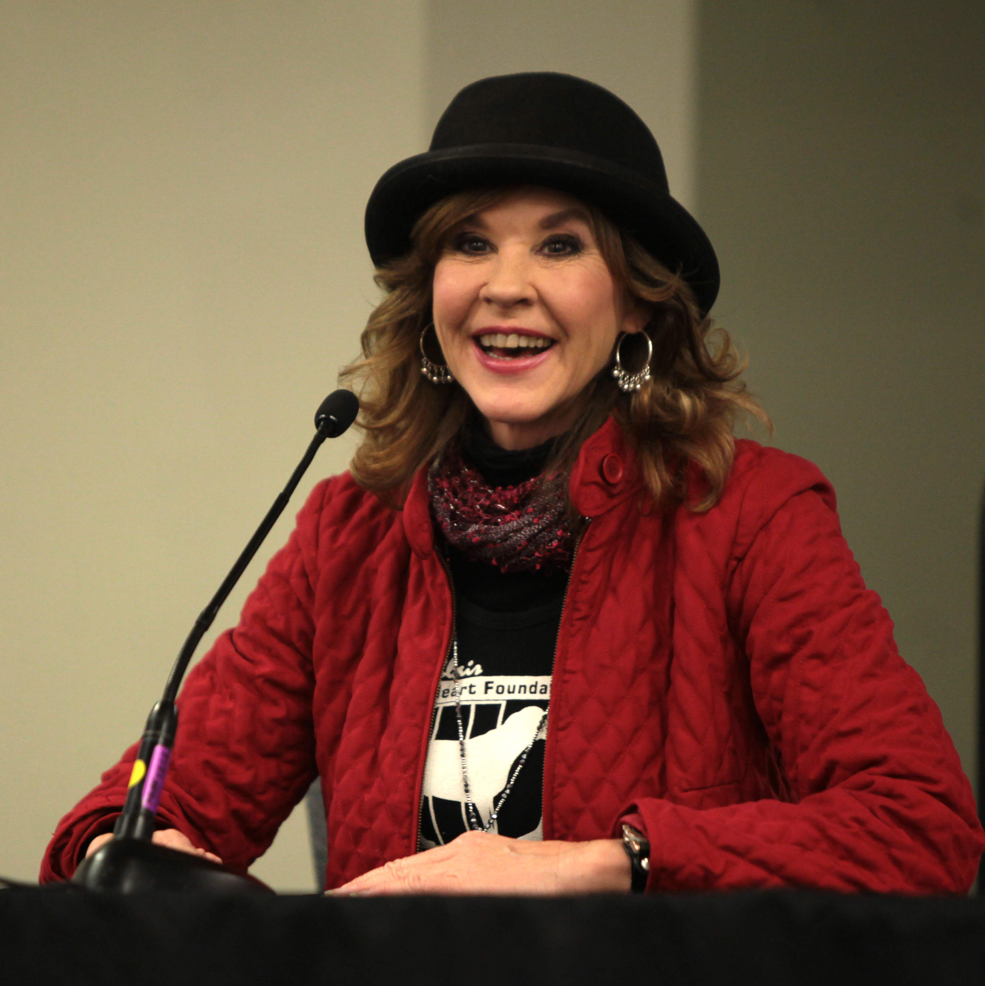 Actress Linda Blair at the 2014 Phoenix Comic Con Fan Fest on December 14, 2014. Photo by Gage Skidmore